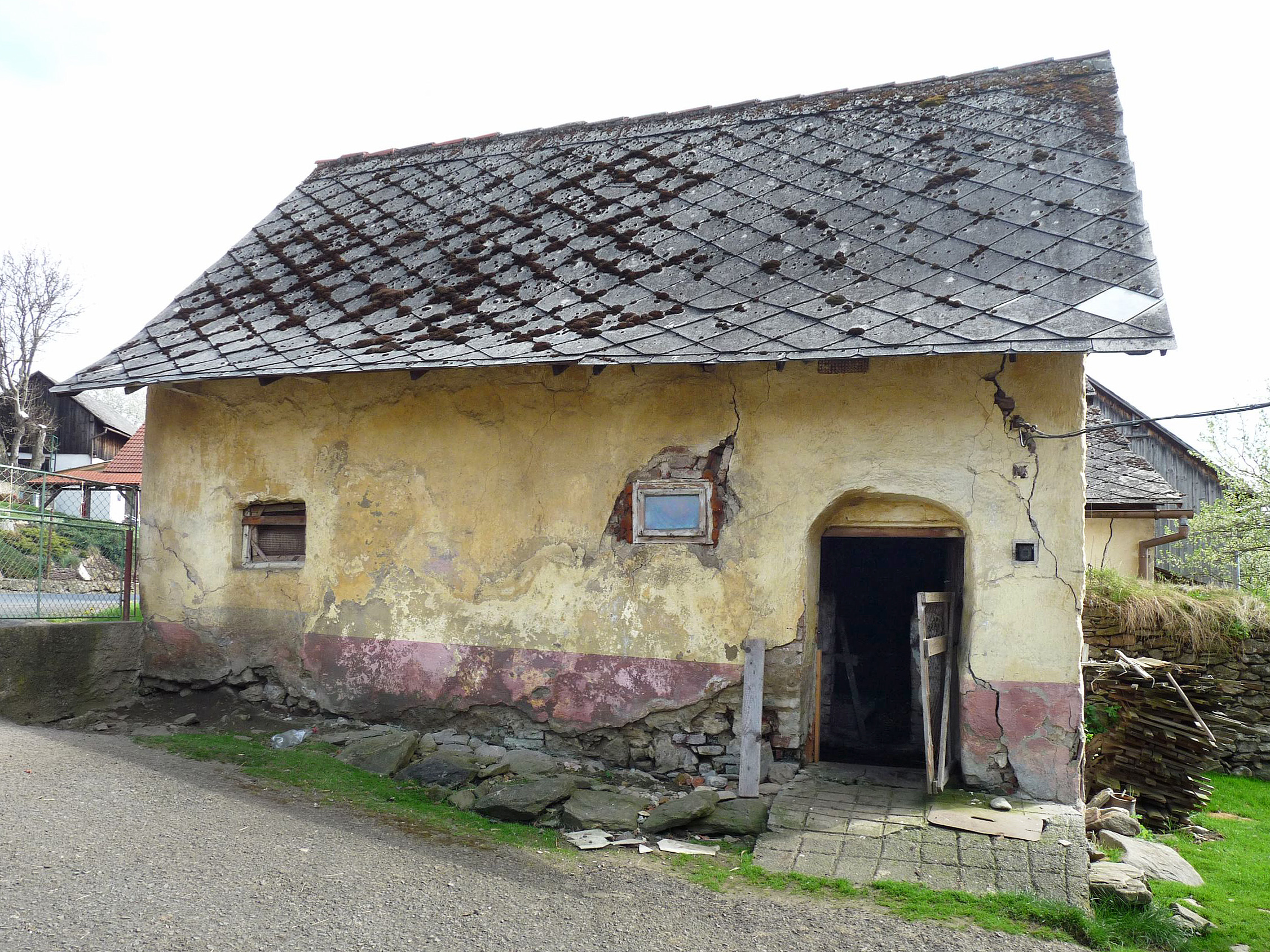 Building of the former mikveh in Strážov, Klatovy District, Czech Republic, nowadays used for farming purposes.